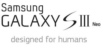 Samsung Galaxy S III logo.